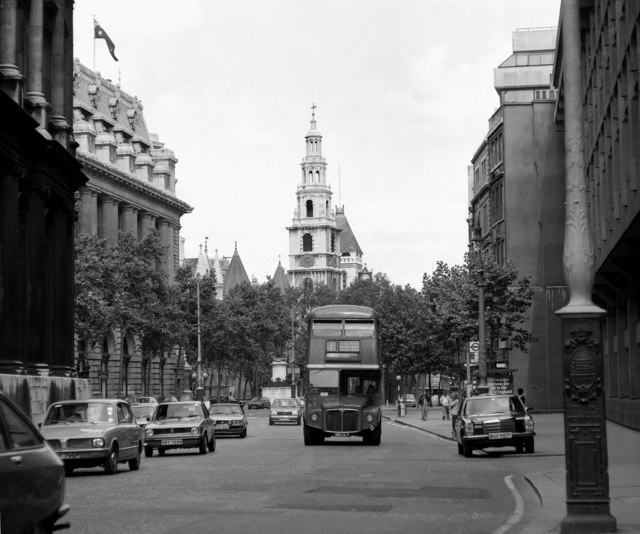 A view east down Strand, London, with St Clement Danes church in the distance, and a London Transport Routemaster bus operating route 1 .